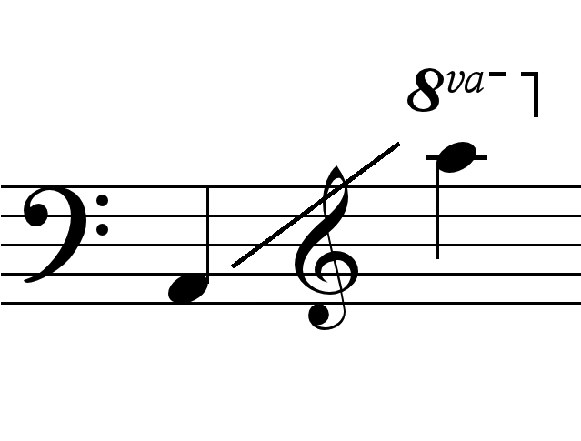 Range of the tubular bells.